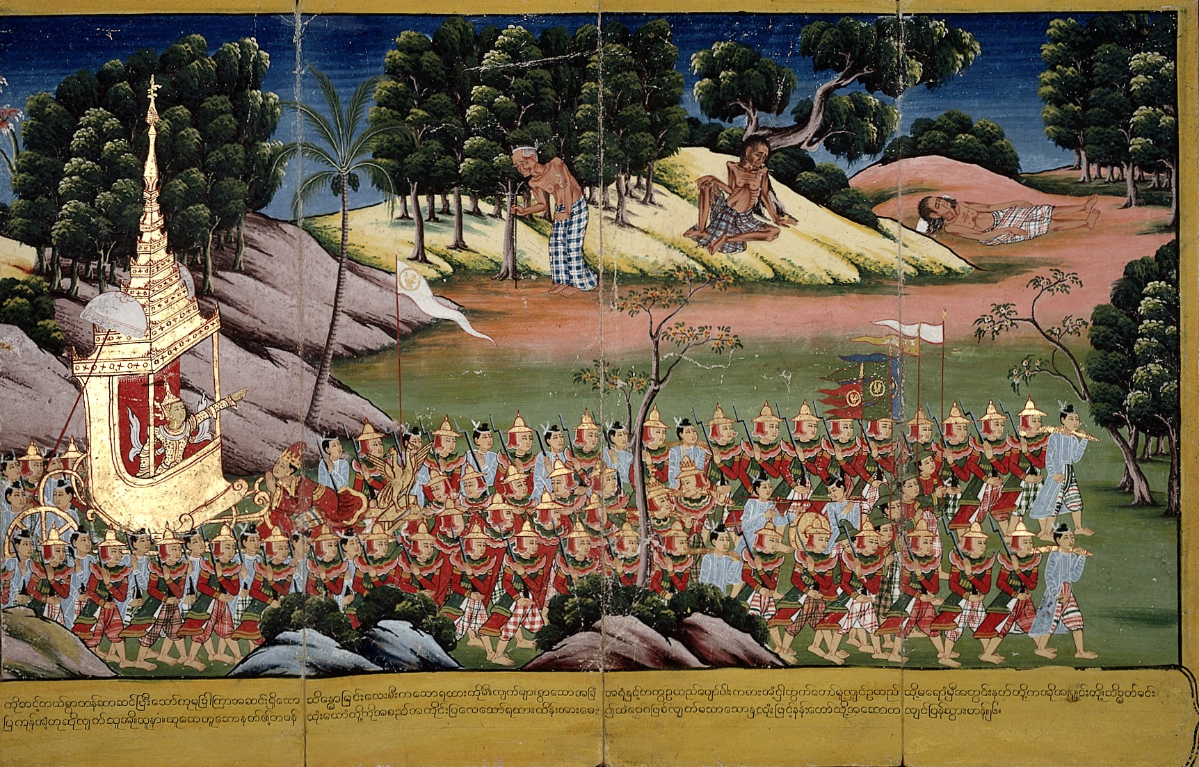 Prince Siddhattha is shown travelling to a park in a palanquin drawn by courtiers and soldiers. On his was Prince Siddhattha sees the three signs, an old man, a sick man and a corpse, that lead to his renunciation of secular life. Asian Collection Keywords: Buddhist; burmese-pali; God; or. ms. 22; Buddhism; Religion; Art; Buddha